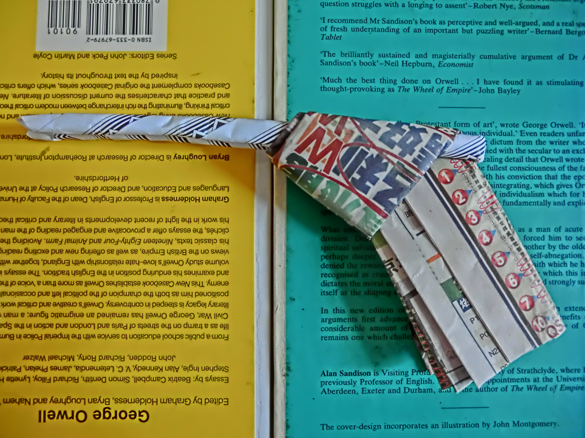 摺紙 手槍